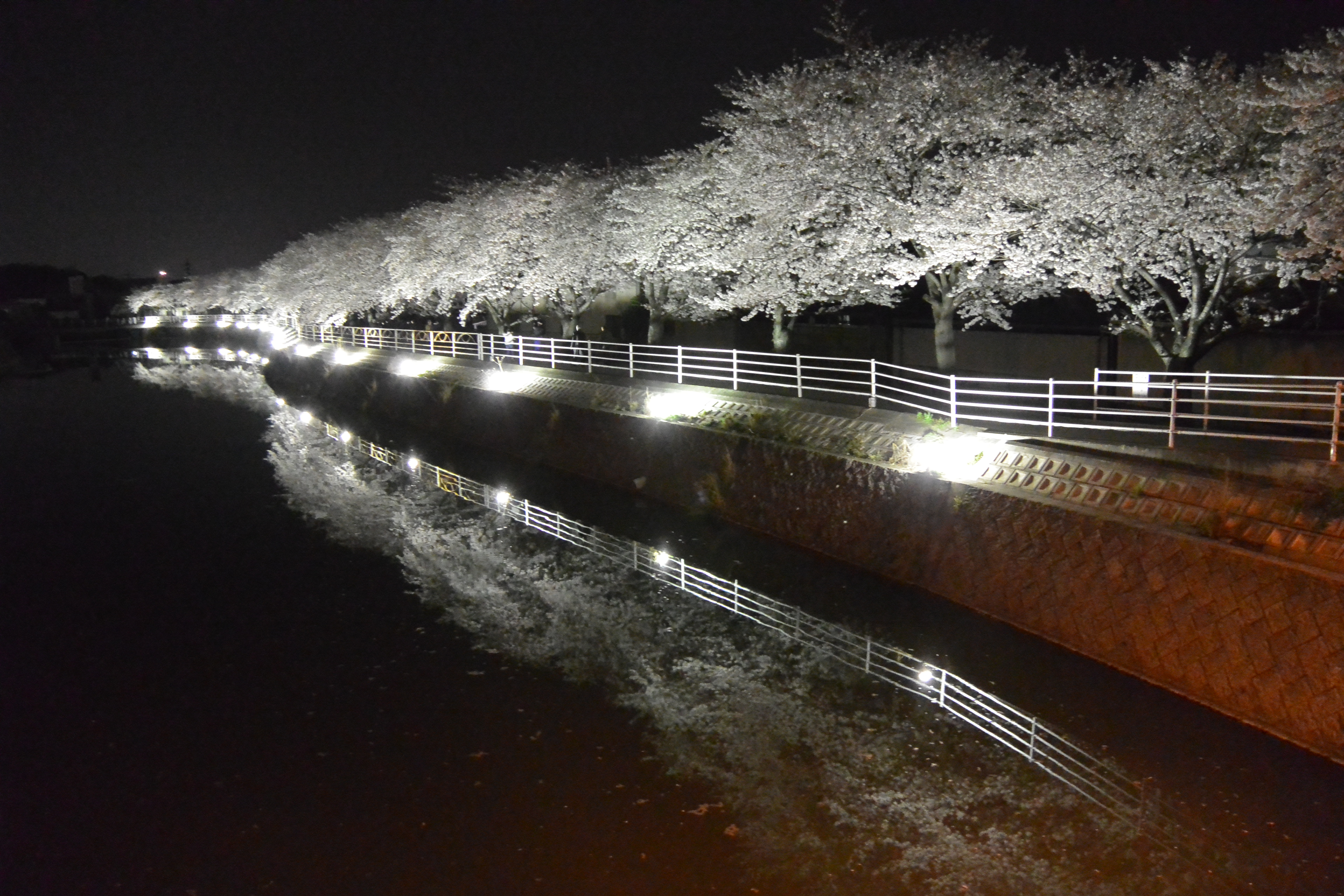 Illuminated cherry blossom, April of 2014 at Kyusyu Japan